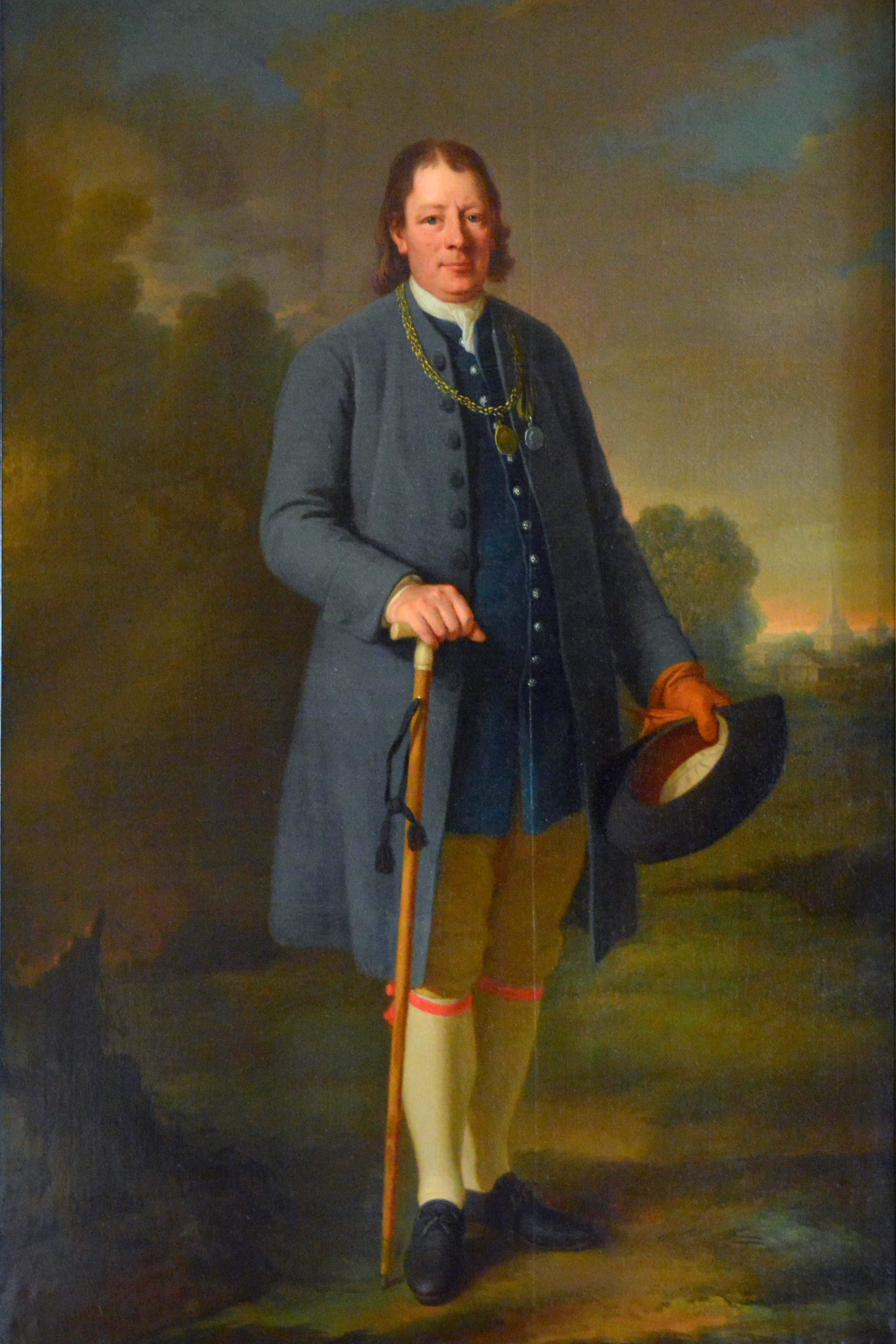 Portrait of Anders Mattsson, Swedish